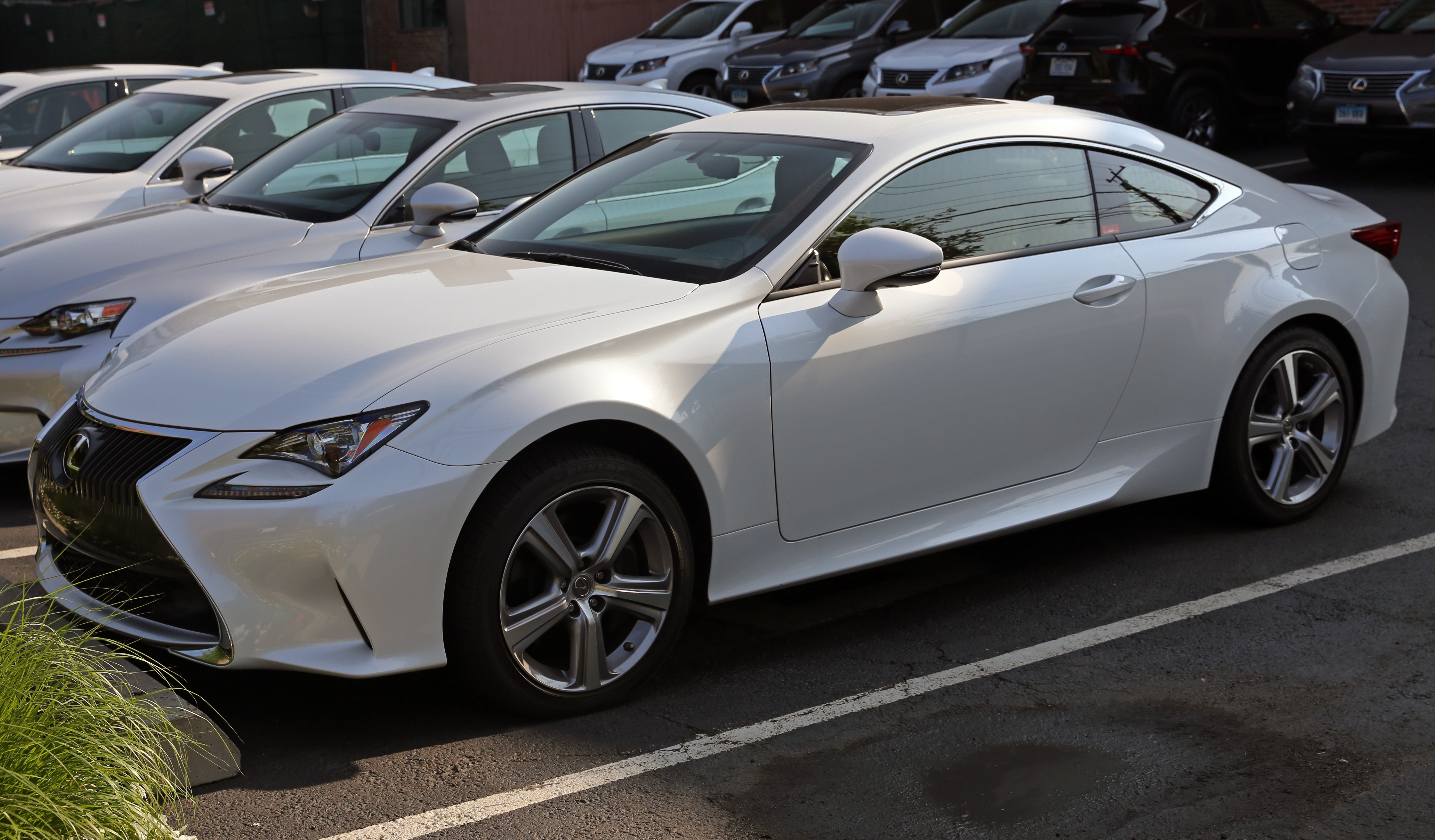 2015 Lexus RC350 AWD in Starfire Pearl with Flaxen Linear Dark Mocha Wood trim (!) interior. Also has navigation package, Premium package, tilt/slide power moonroof and so on.